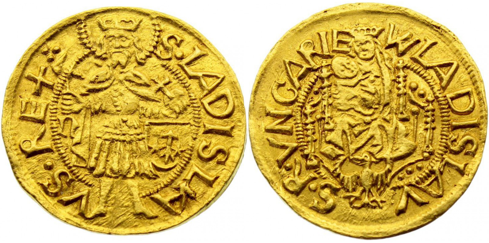 Hungary: Vladislaus II of Bohemia and Hungary, medieval ducat (Magyar aranyforint / Hungarian gold forint) gold coin struck in 1491 by the Baia Mare (Nagybánya) mint house in Transylvania. Obverse shows seated figure of crowned Madonna (Mary) and Child surrounded by blessed milk thistles and white eagle symbol of Poland beneath, obverse Latin text reads "WLADISLAV S.R. VNGARIE" (Latin Vladislaus Sanctus rex Ungariae / English Vladislaus Holy King of Hungary). Reverse shows a crowned and nimbate standing figure of Saint Ladislaus I King of Hungary holding a horseman's battle axe and globus cruciger above the below mint mark "n" and mint house (mint master) shield Sas coat of arms of Bartolomeu Drágfi de Beltiug (Hungarian Bertalan Drágffy de Béltek) Voivode of Transylvania, reverse Latin text reads "S. LADISLAVS REX" (Latin Sanctus Ladislaus rex / English Saint Ladislaus King). Coin weight: 3.54gram (Au), coin diameter: 22mm.